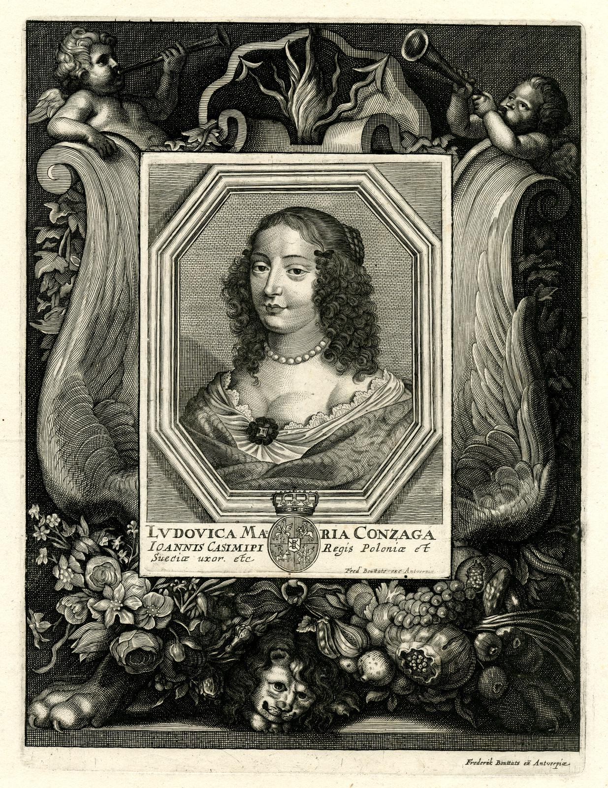 Portrait of Louisa Maria Gonzaga, Queen of Poland; bust-length, directed to left, glancing towards the viewer, wearing pearl necklace, cloak and low-cut dress with lace-trimmed collar and brooch; in octagonal frame within rectangular design; broad border printed from separate plate, featuring putti blowing trumpets behind scrolled wings, fruits, flowers and lion. Engraving